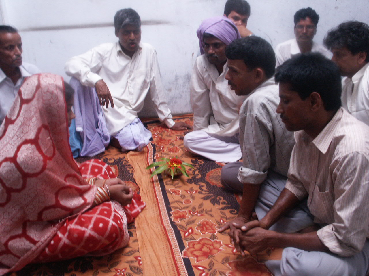 मधेश बिबाह